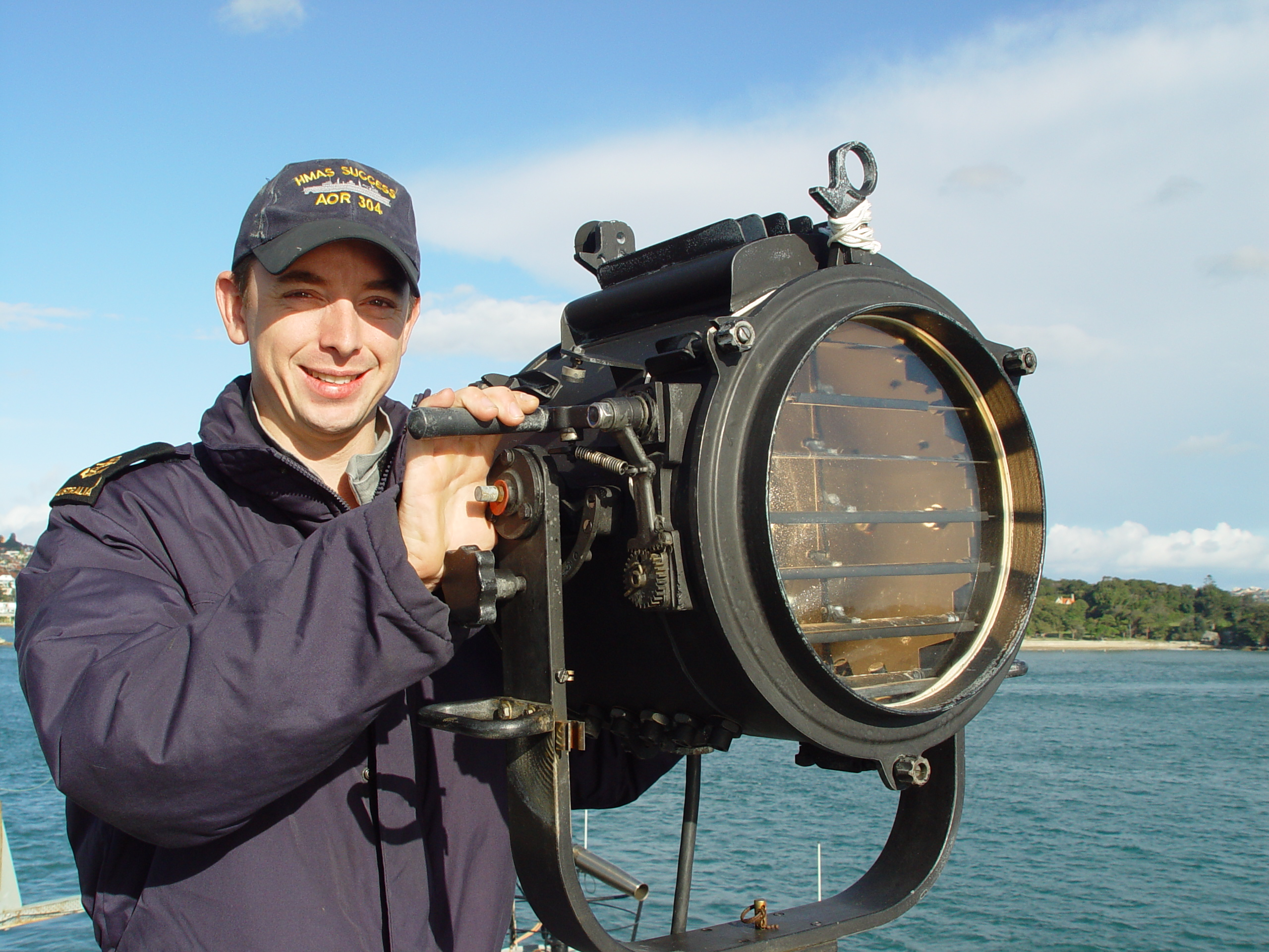 A Royal Australian Navy sailor signals another warship on a 10" signalling projector.